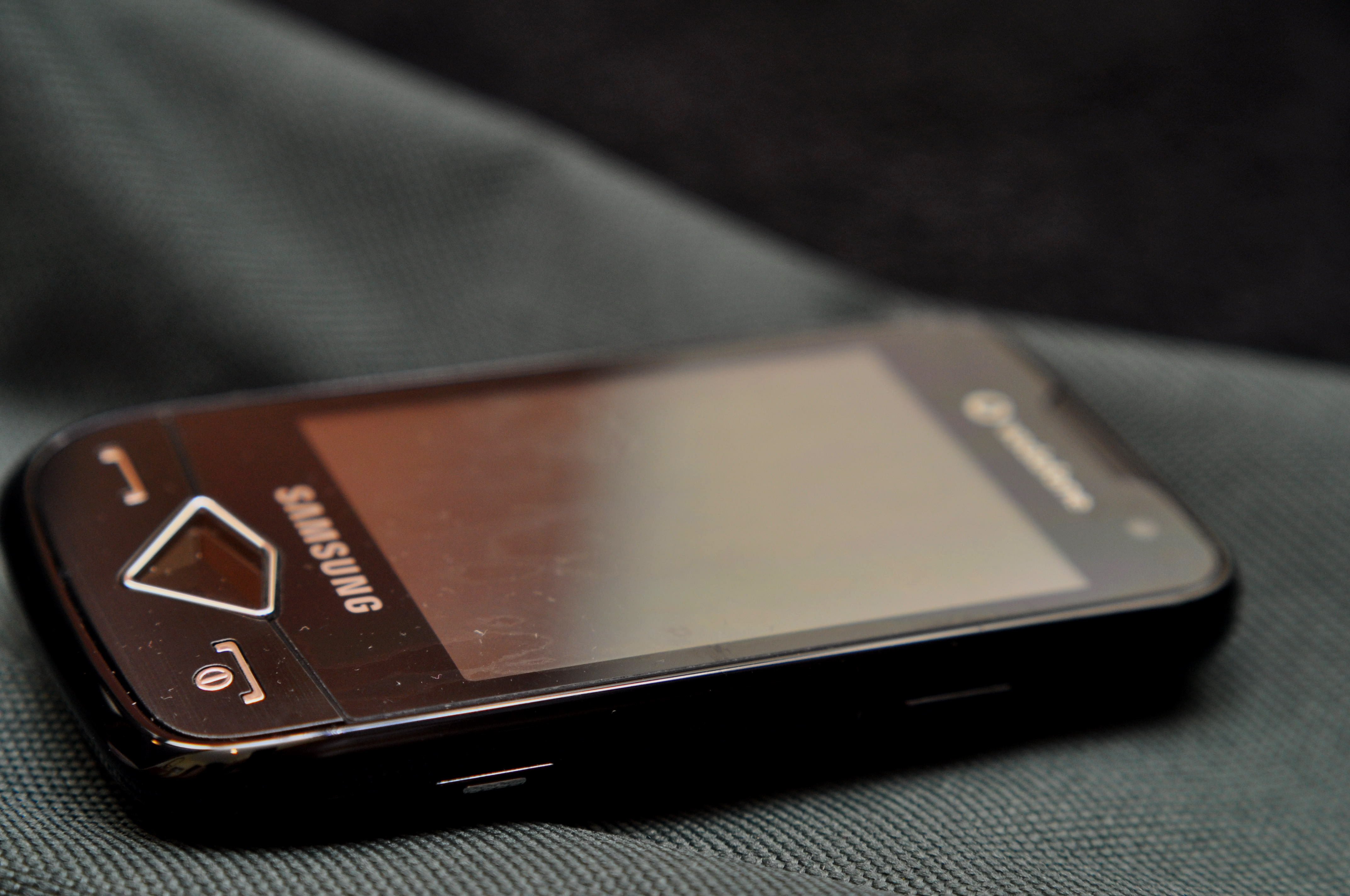 A new era.